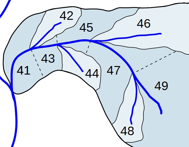 Example of a river system coded with the Pfafstetter coding system. The code attributes the numbers 2,4,6,8 to the primary tributary basins and the numbers 1,3,5,7,9 to inter-basin regions.